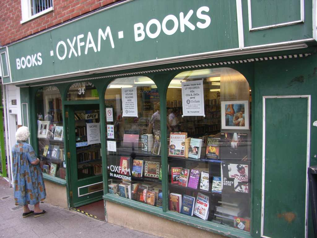 Oxfam Bookshop, Maidstone, Kent